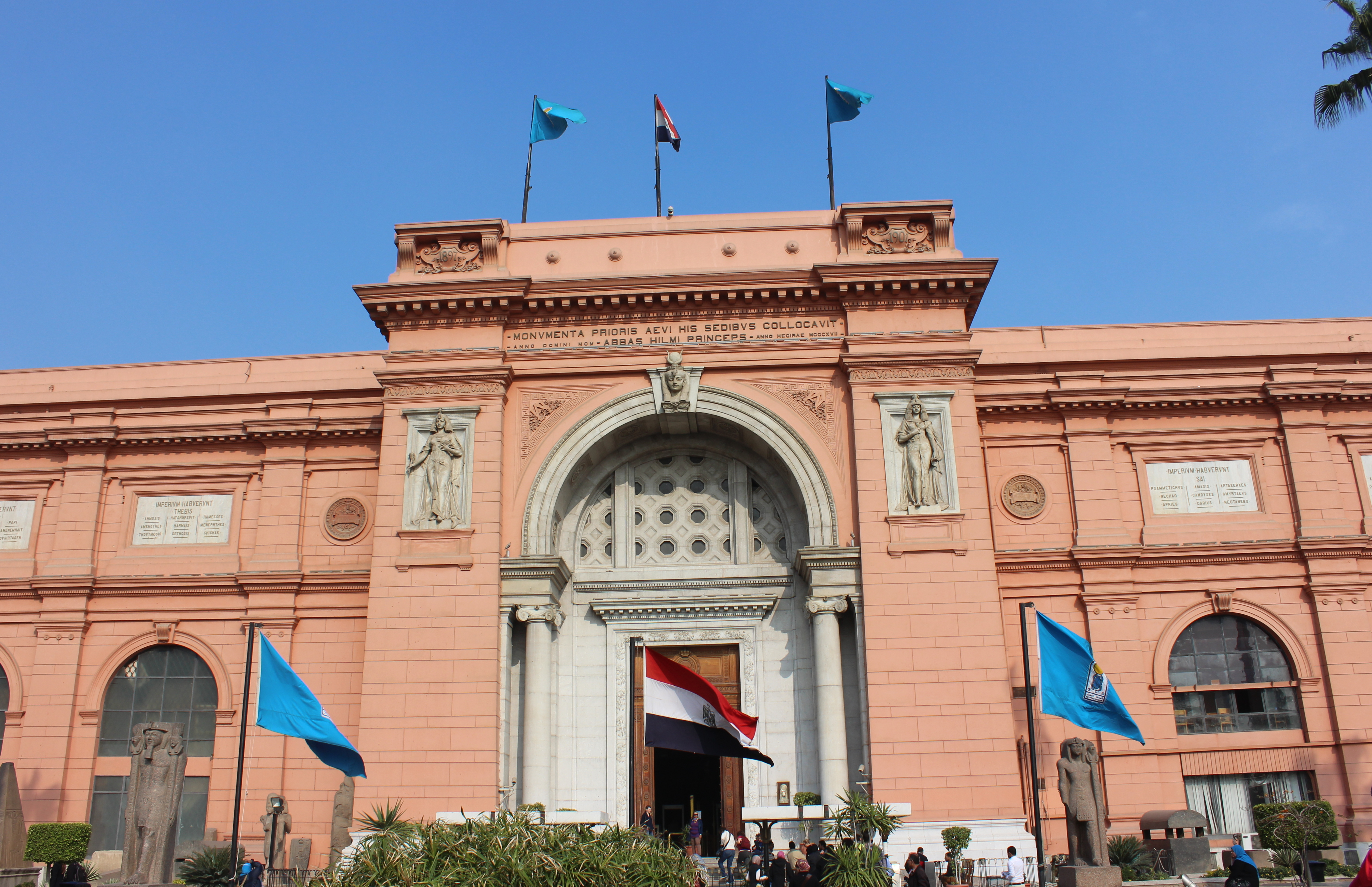 Egyptian Museum in Cairo, Egypt.)